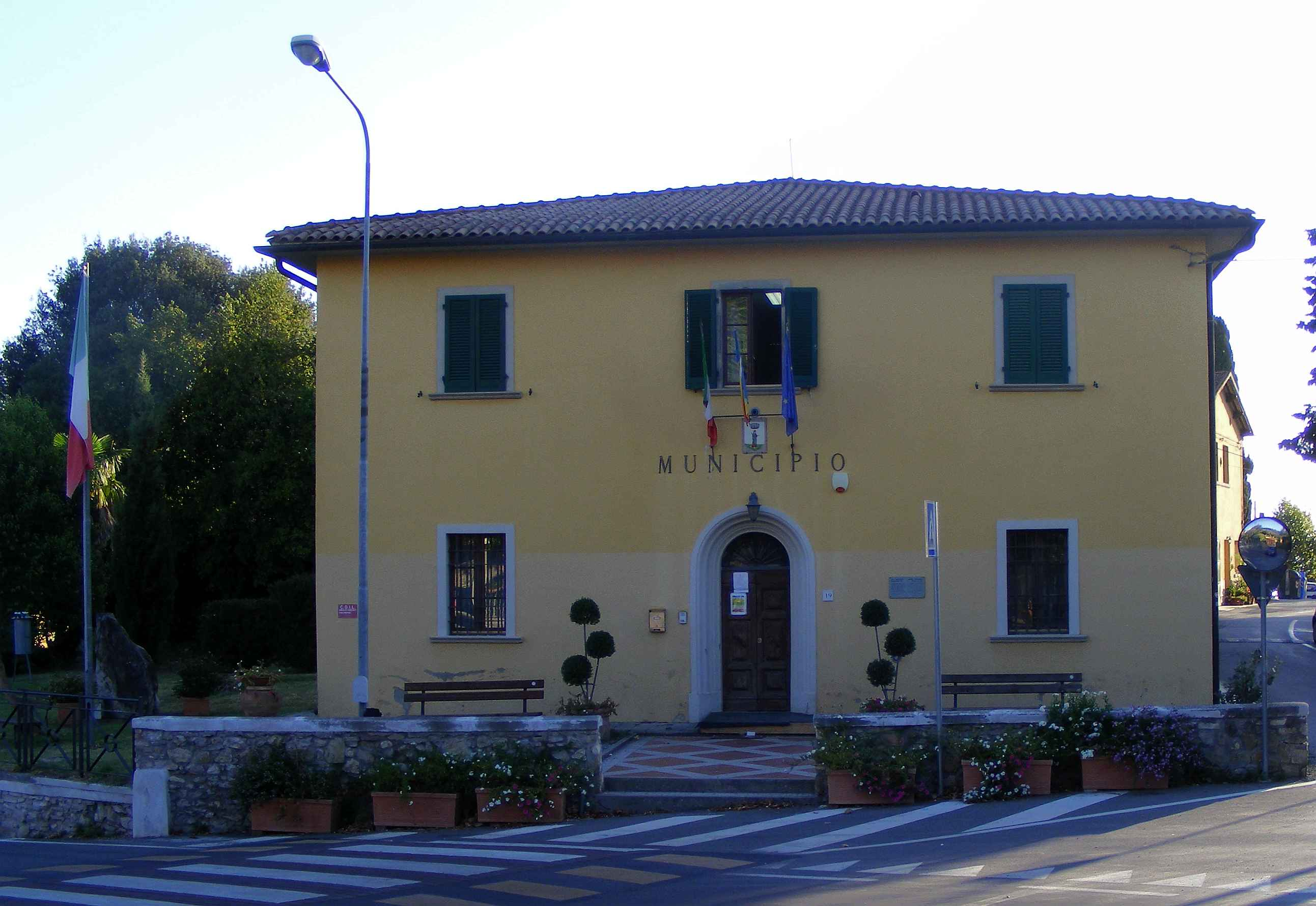 Santa Luce (PI): town hall